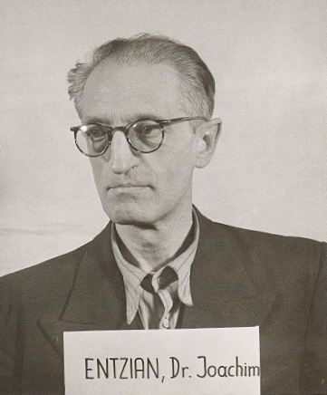 Dr. Joachim Entzian (1891-1968) at the Nuremberg Trials. Entzian was a German lawyer, who was a member of the board at Dresdner Bank. This photograph of Entzian as an interned witness was taken by US Army photographers on behalf of the Office of Chief of Counsel for War Crimes (OCCWC) during the Nuremberg Trials. His affidavit was taken during June - December 1947.